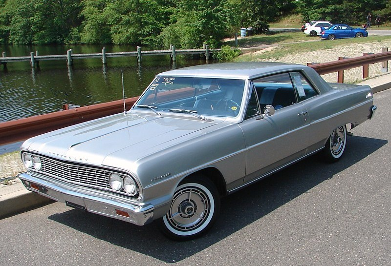 64 Chevelle Malibu Coupe with SS hubcaps. Not an SS. SS side trim is higher.